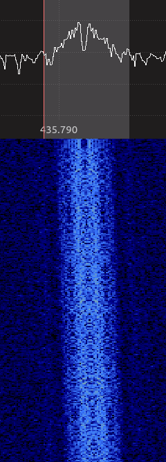 Waterfall depicting HuskySat-1 BPSK TLM. Image was take as a screen capture of GQRX (under control of Gpredict to tune for Doppler shift).